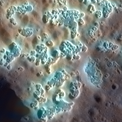 Hollows in Raditladi Basin on Mercury. Image with strengthened colors by MESSENGER; width is 7 km. Description from NASA photojournal: View of a section of the floor and peak-ring mountains of the Raditladi impact basin, including the area in a previous Gallery image. The individual frames in the mosaic are about 20 km wide. The rounded, depressions, called "hollows" are a fascinating discovery of MESSENGER's orbital mission and may have been formed by sublimation of a component of the material when exposed by the Raditladi impact. This image was created by merging high-resolution monochrome images from MESSENGER's Narrow Angle Camera with a lower-resolution enhanced-color image obtained by the Wide Angle Camera.